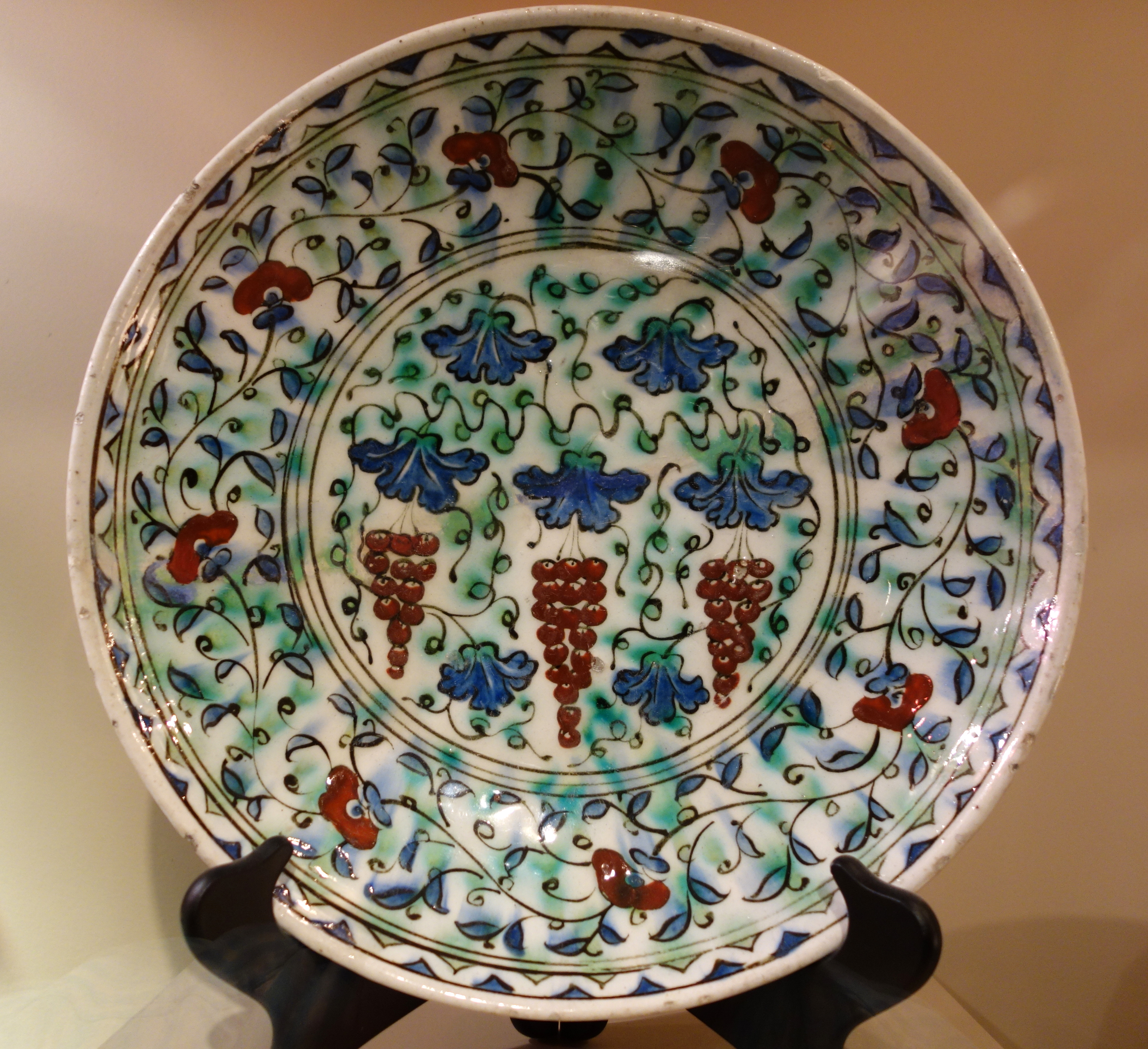 Exhibit in the Huntington Museum of Art, Huntington, West Virginia, USA. This artwork is in the public domain because the artist died more than 70 years ago. Dish, Iznik, Turkey, Ottoman, about 1600. Underglaze-painted fritware. Overall: 2 1/4" x 11 7/8". Gift of Drs. Joseph and Omayma Touma and family, 2000.10.17.